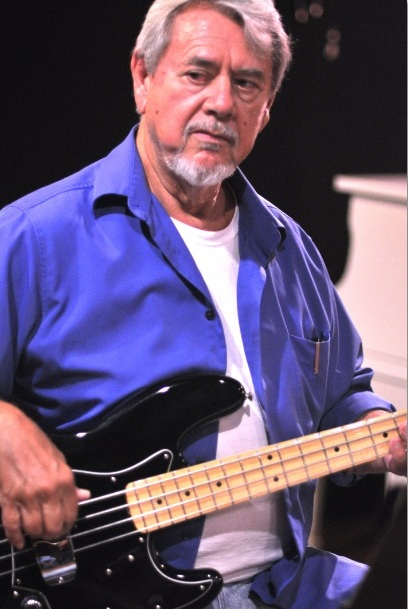 Joe Osborn